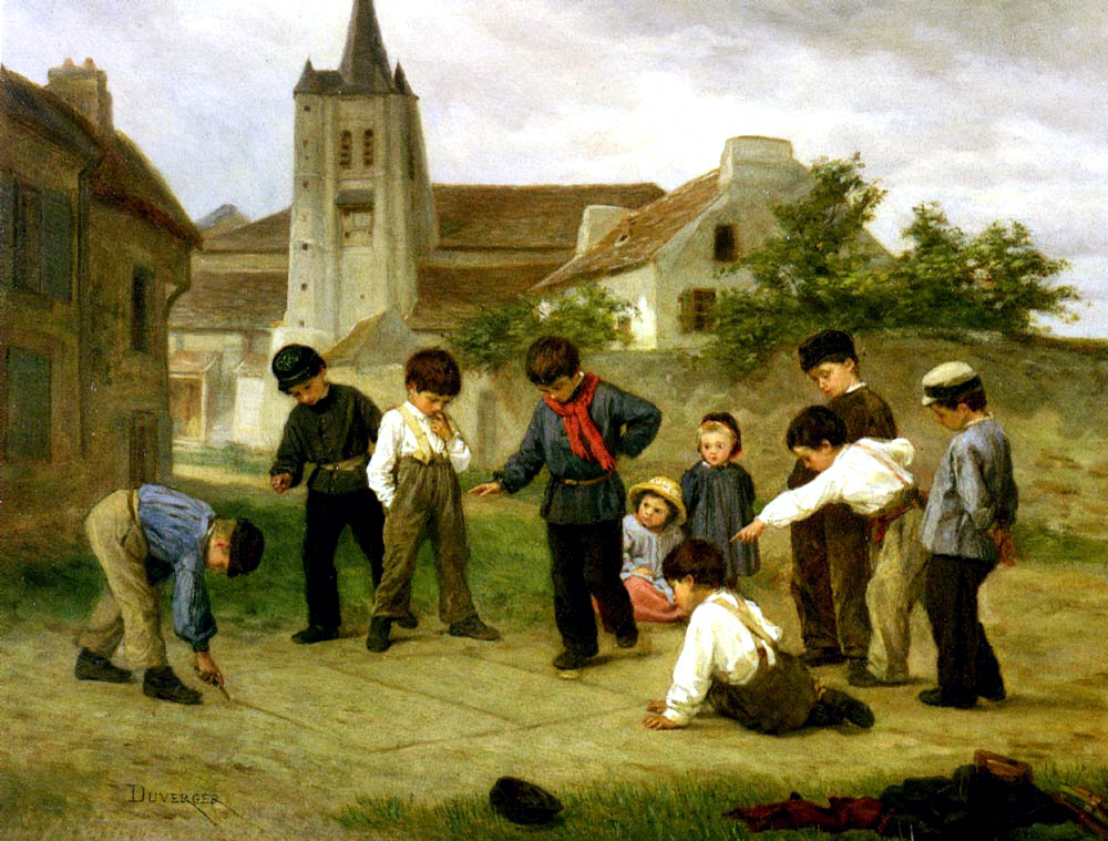 Hopscotch